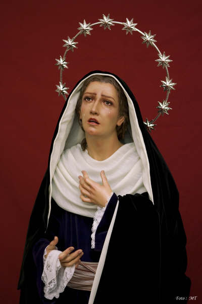 Imagen que acompaña al Cristo del Traslado al Sepulcro.